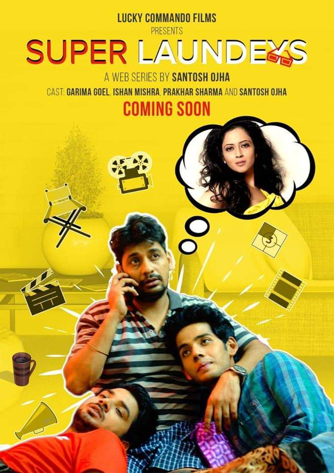 Lucky Commando Films present web series super Laundeys